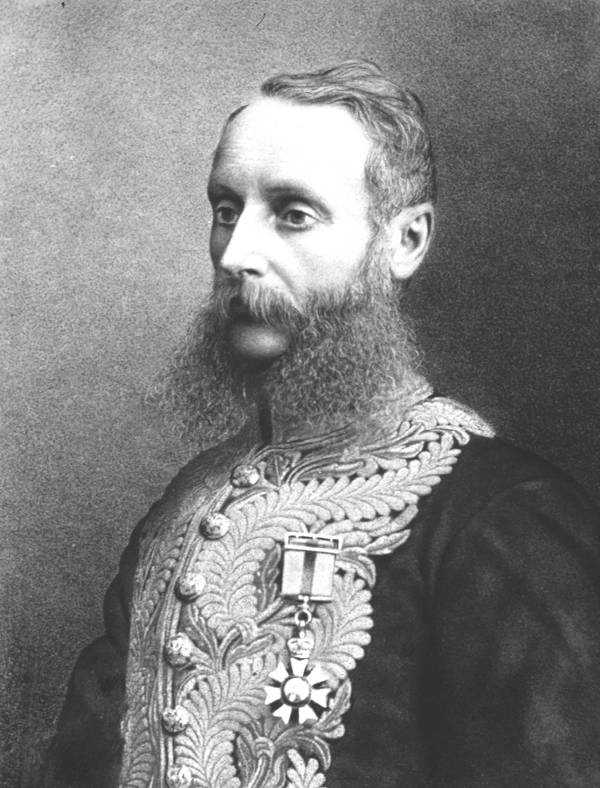 This is a photograph of Frederick Weld (1823–1891), Premier of New Zealand, Governor of Western Australia, Governor of Tasmania, and Governor of the Straits Settlements. The original photograph is black and white, 15 x 11 cm.